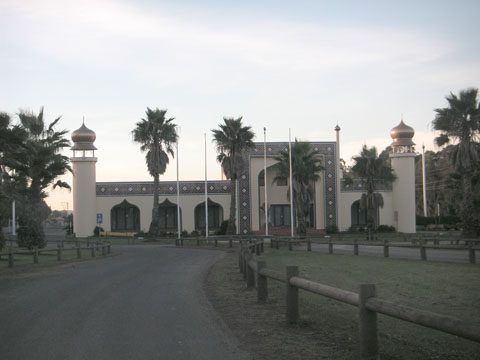 Trash 'n' Treasure markets on Camden Valley Way at Horningsea Park, NSW